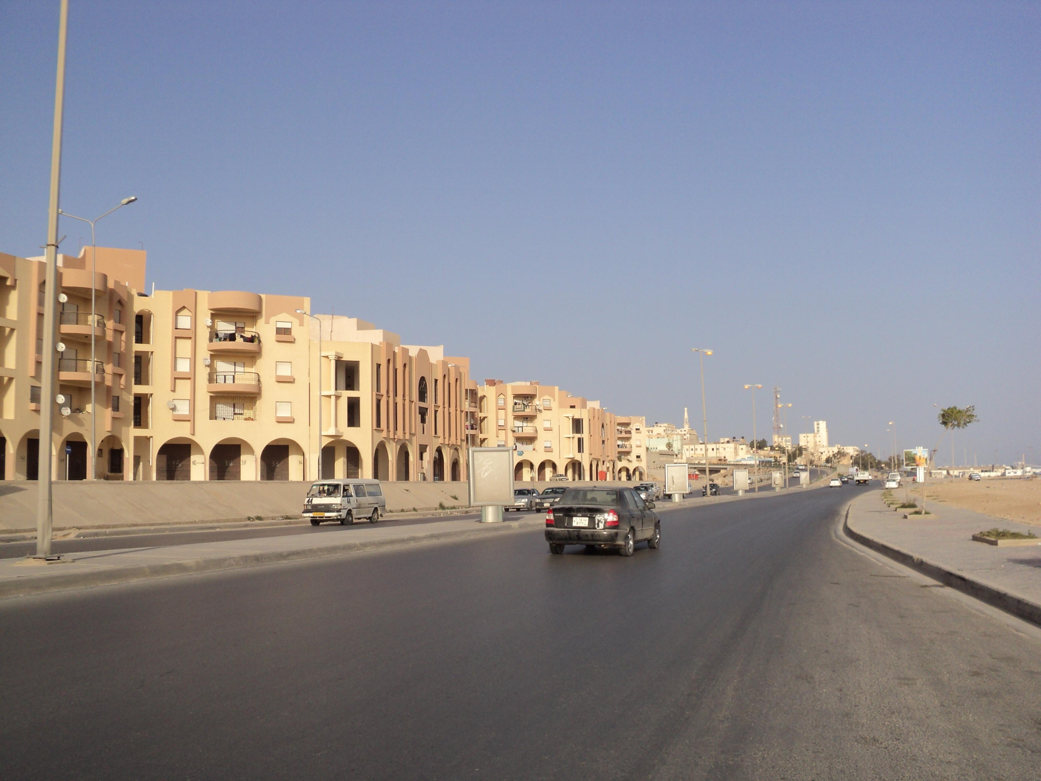 The Libyan city of Tobruk.